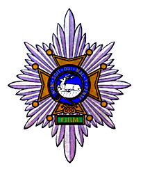 Cap badge of Worcestershire and Sherwood Foresters Regiment